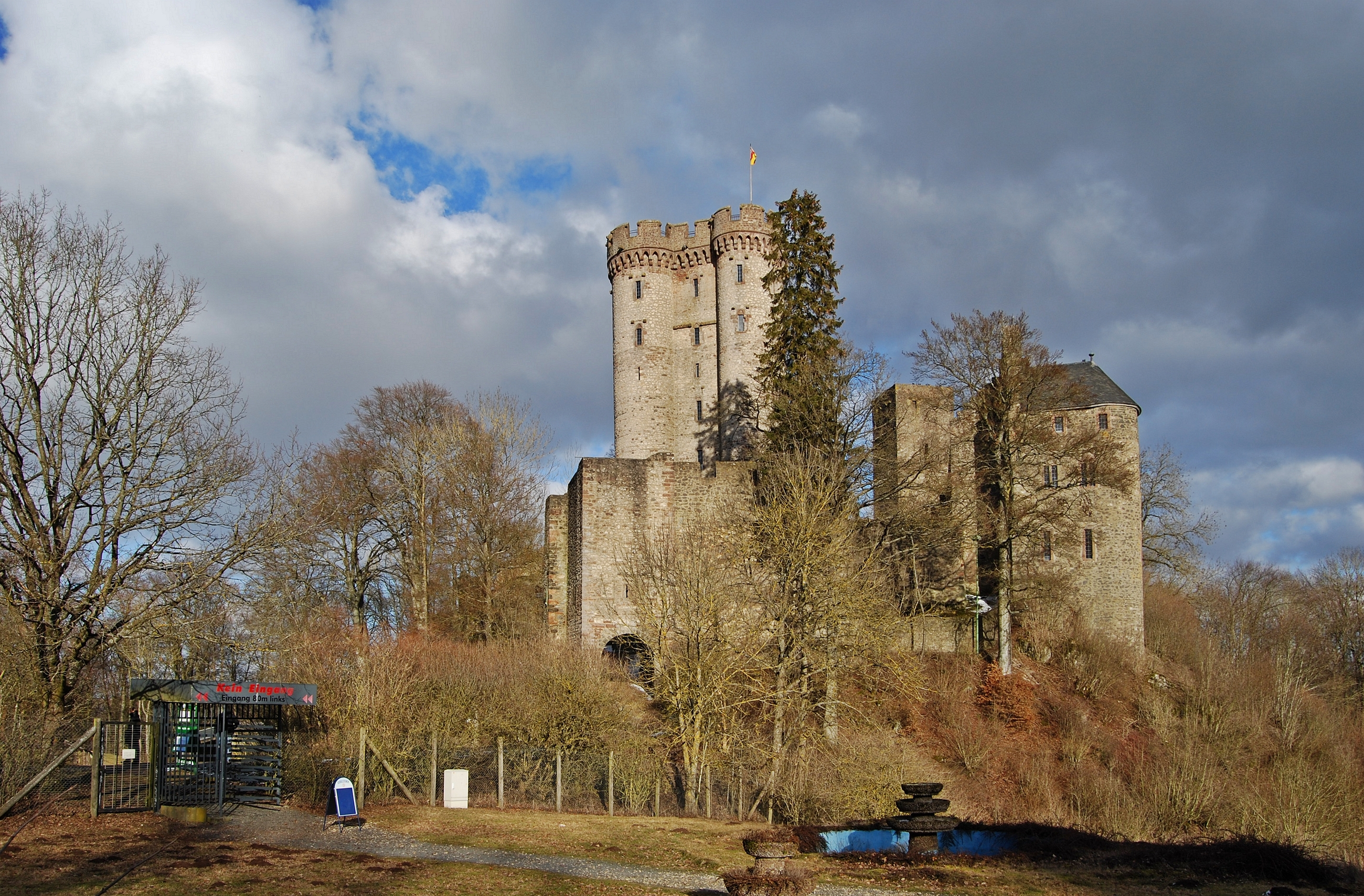 The ruin of Kasselburg castle near Pelm, Rhineland-Palatinate.